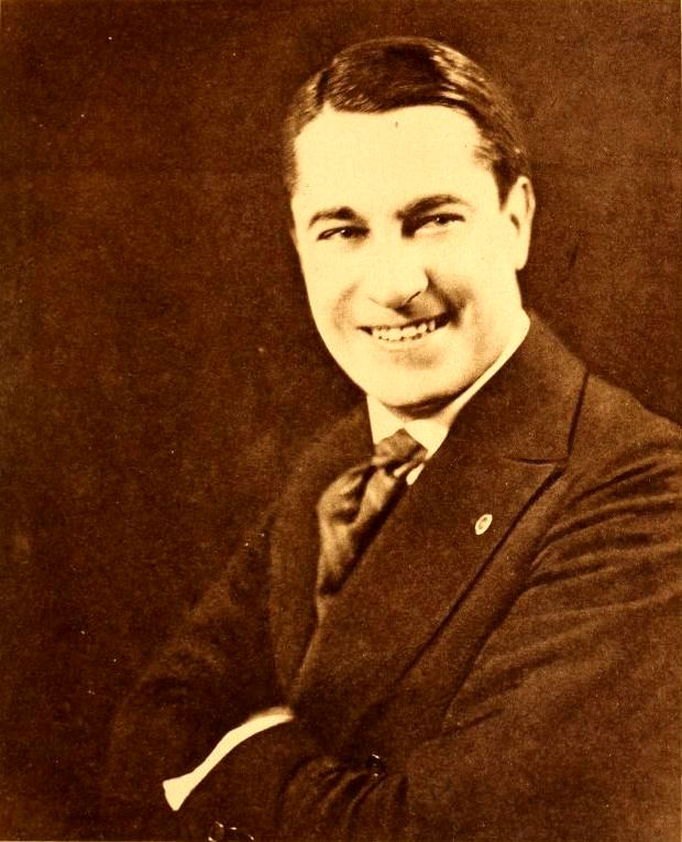 American actor Earl Metcalfe on page 23 of the June 1920 Motion Picture Magazine.